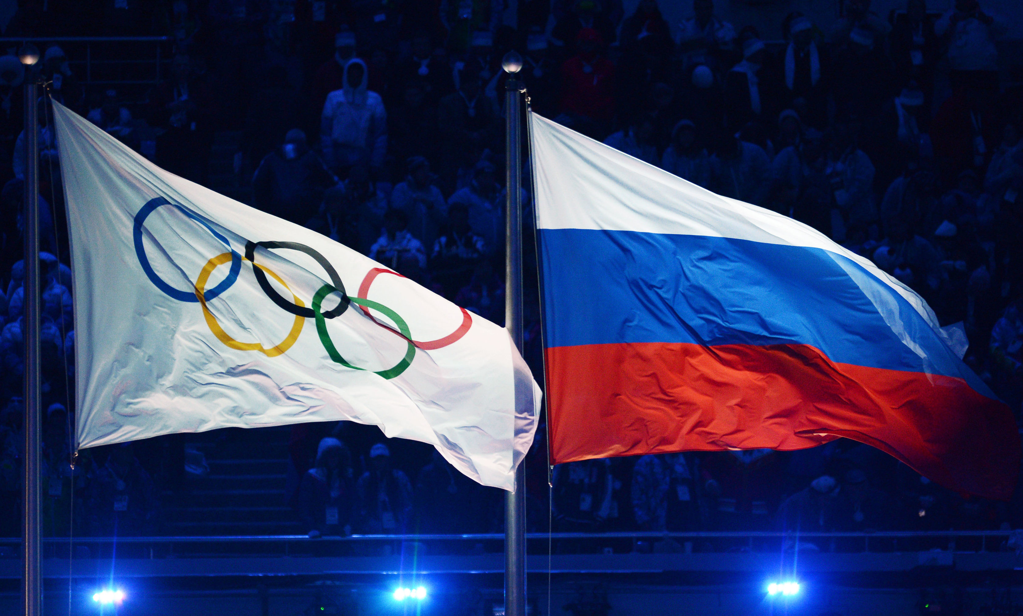 At the Opening Ceremony for the XXII Olympic Winter Games.